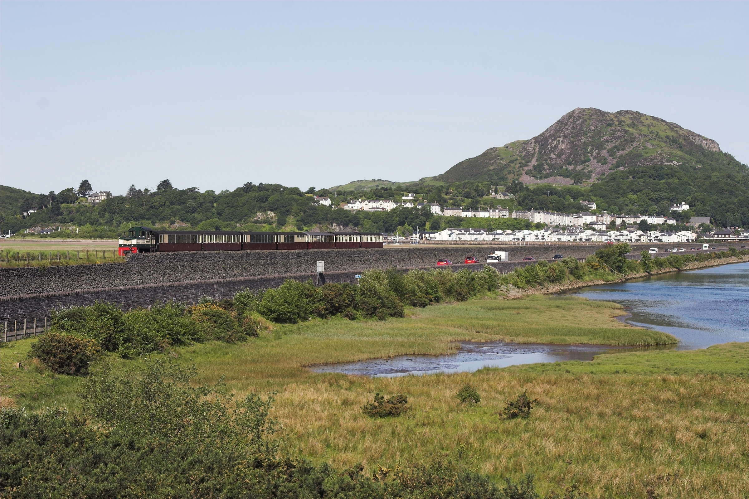 A Ffestiniog Railway train hauled by diesel engine Criccieth Castle passing the Cob.